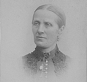 Swedish museum director Carolina Christiansson (1832-1924)